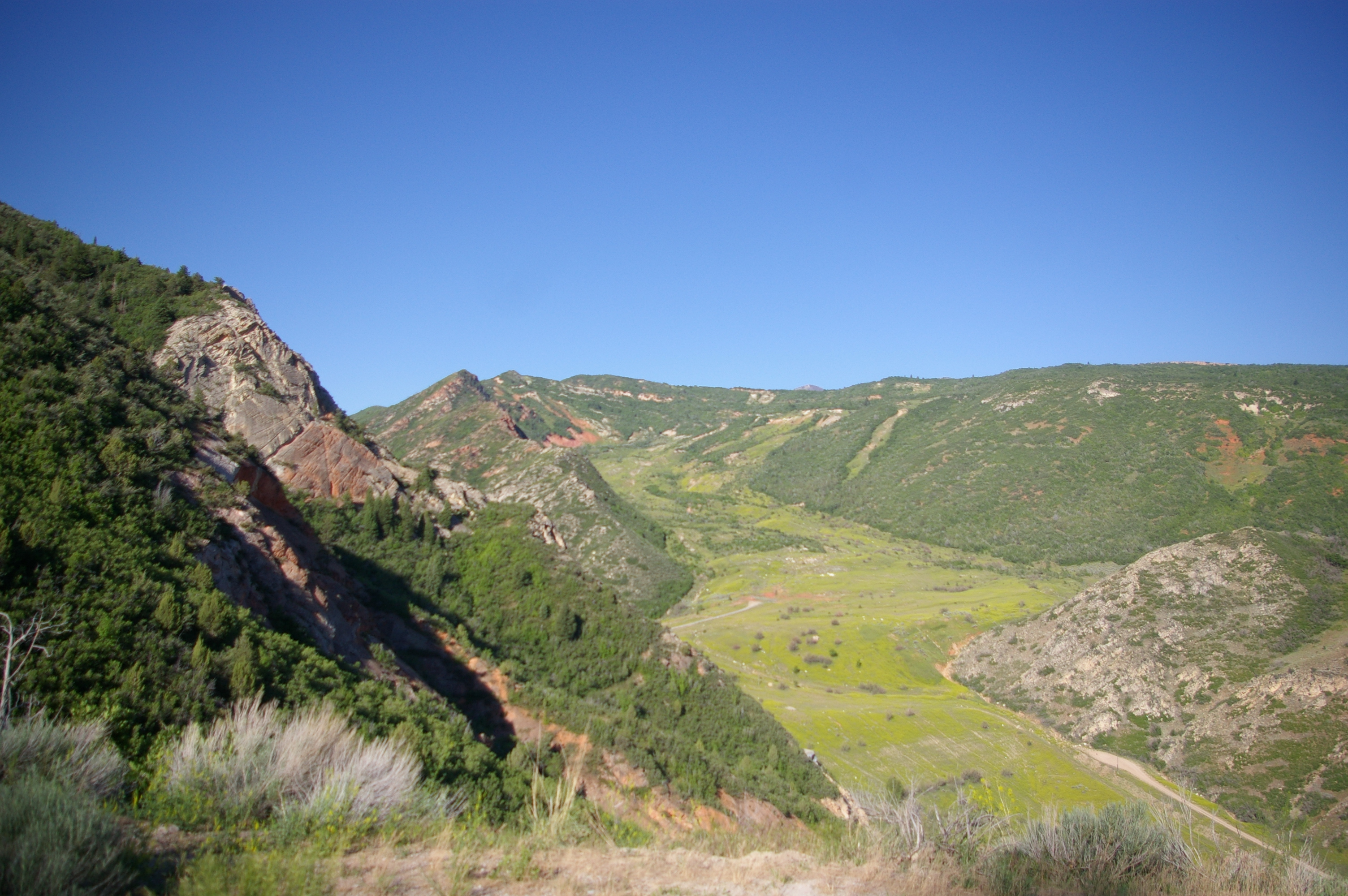 A view of the scar left from the landslide that destroyed the town of Thistle. This is taken from the rest area along U.S. Route 6.